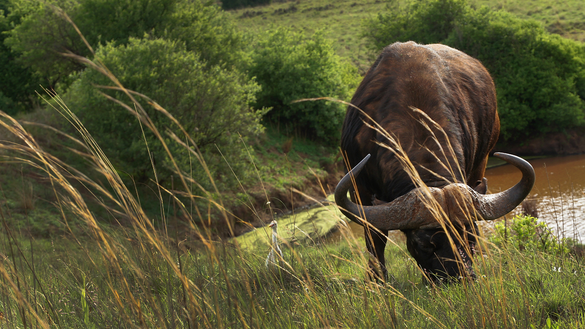 South Africa